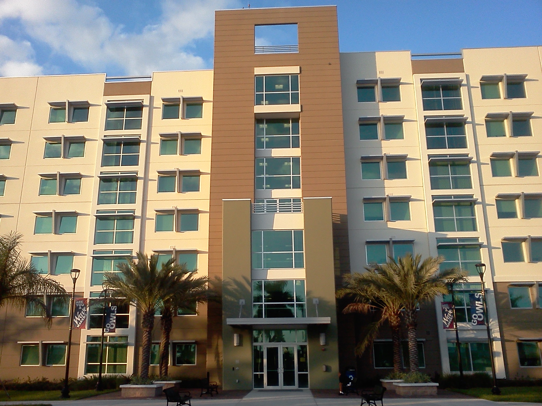 Student Housing on the Boca Raton campus of Florida Atlantic University.